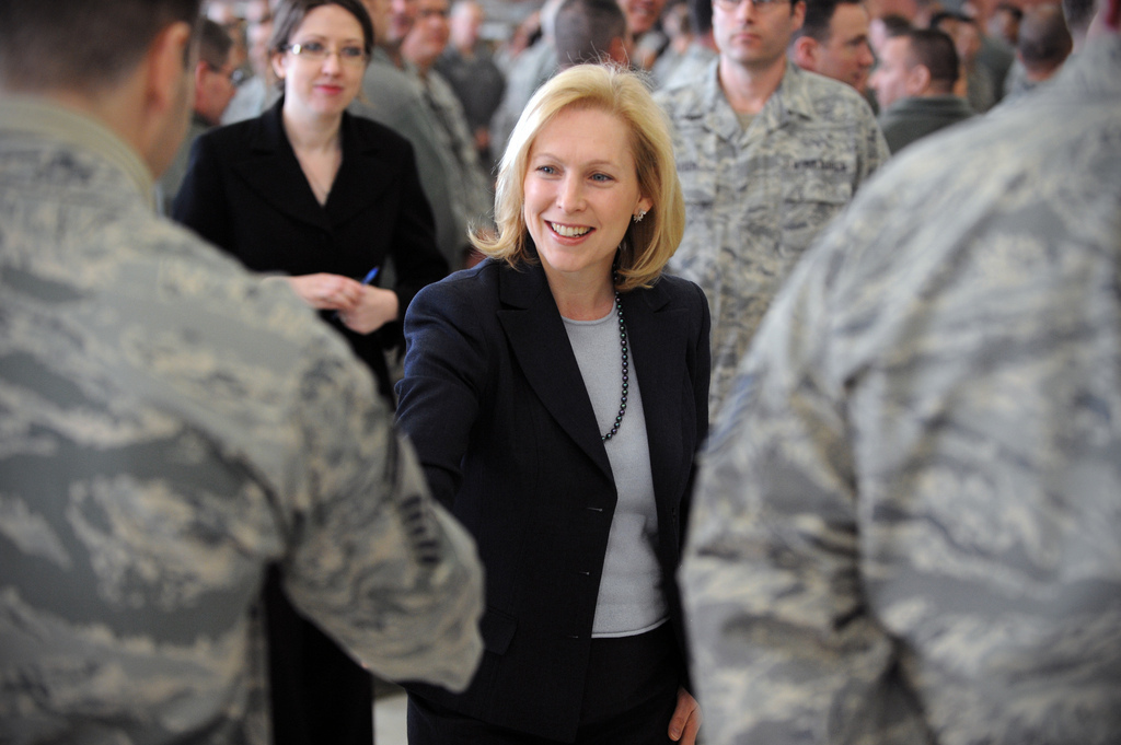 Sen. Kirsten Gillibrand meets members of the 106th Rescue Wing, Westhampton Beach, NY.